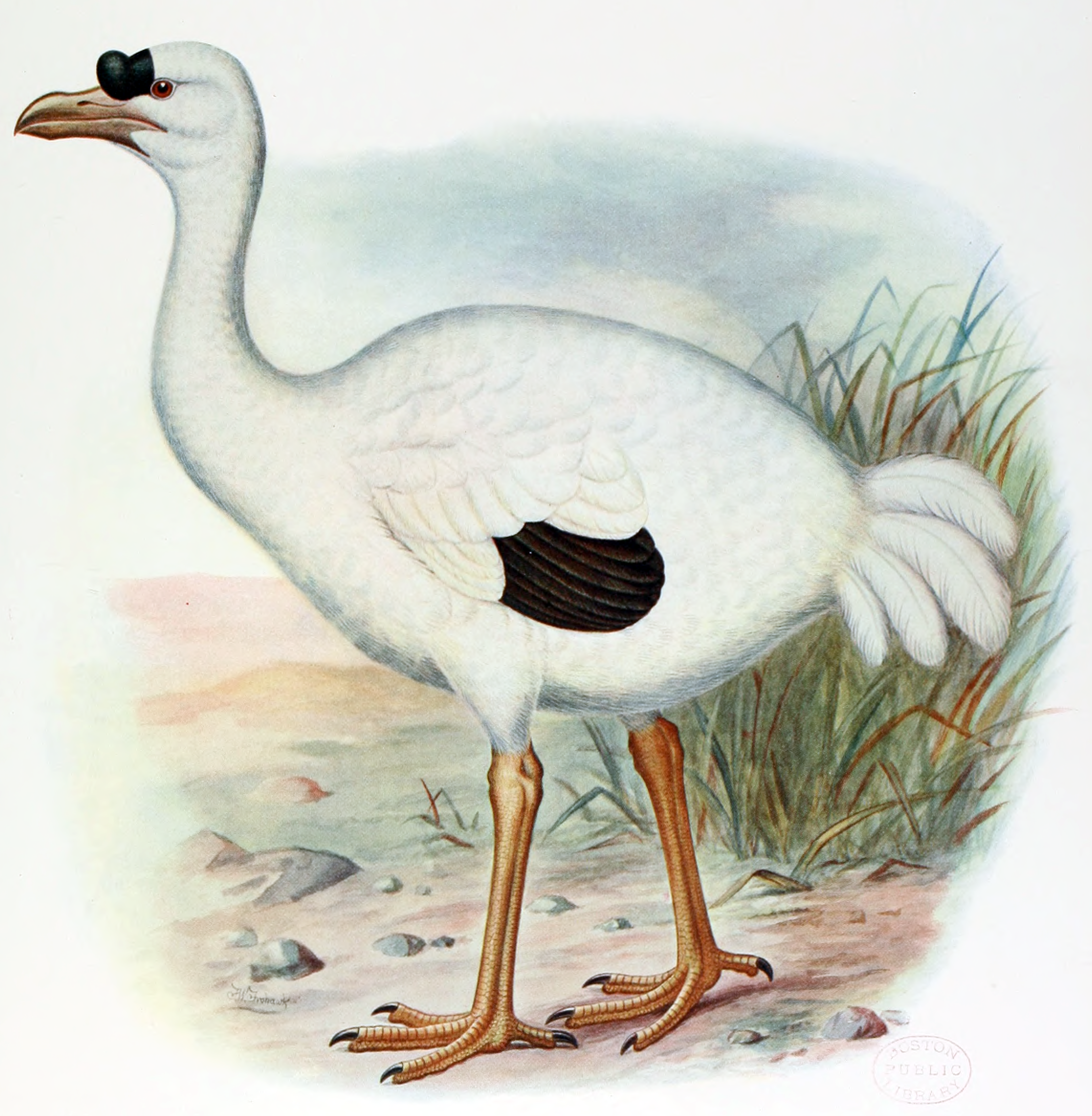 Extinctbirds1907 P25A, The image shows a hypothetical drawing based on Pezophaps solitaria from description of the Sieur D.B. (Dubois), 1674. Apart from the colours, the overall morphology is identical to Frohawk's other restoration of Pezophaps solitaria. The Réunion Sacred Ibis or Réunion Flightless Ibis (see below) (Threskiornis solitarius), is an extinct bird species that was native to the island of Réunion. It is probably the same bird discovered by Portuguese sailors there in 1613 and until recently assumed by biologists to be a member of the solitaire family and called the "Réunion Solitaire" (Raphus solitarius), classified as a relative of the Dodo.